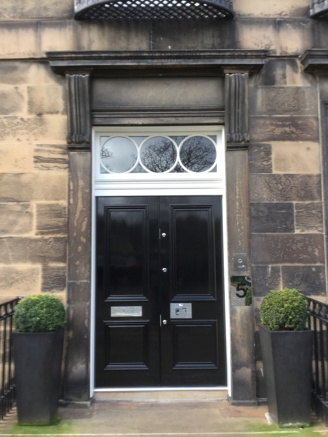 Original doorway of 5 Carlton Terrace, Edinburgh, designed by William Henry Playfair